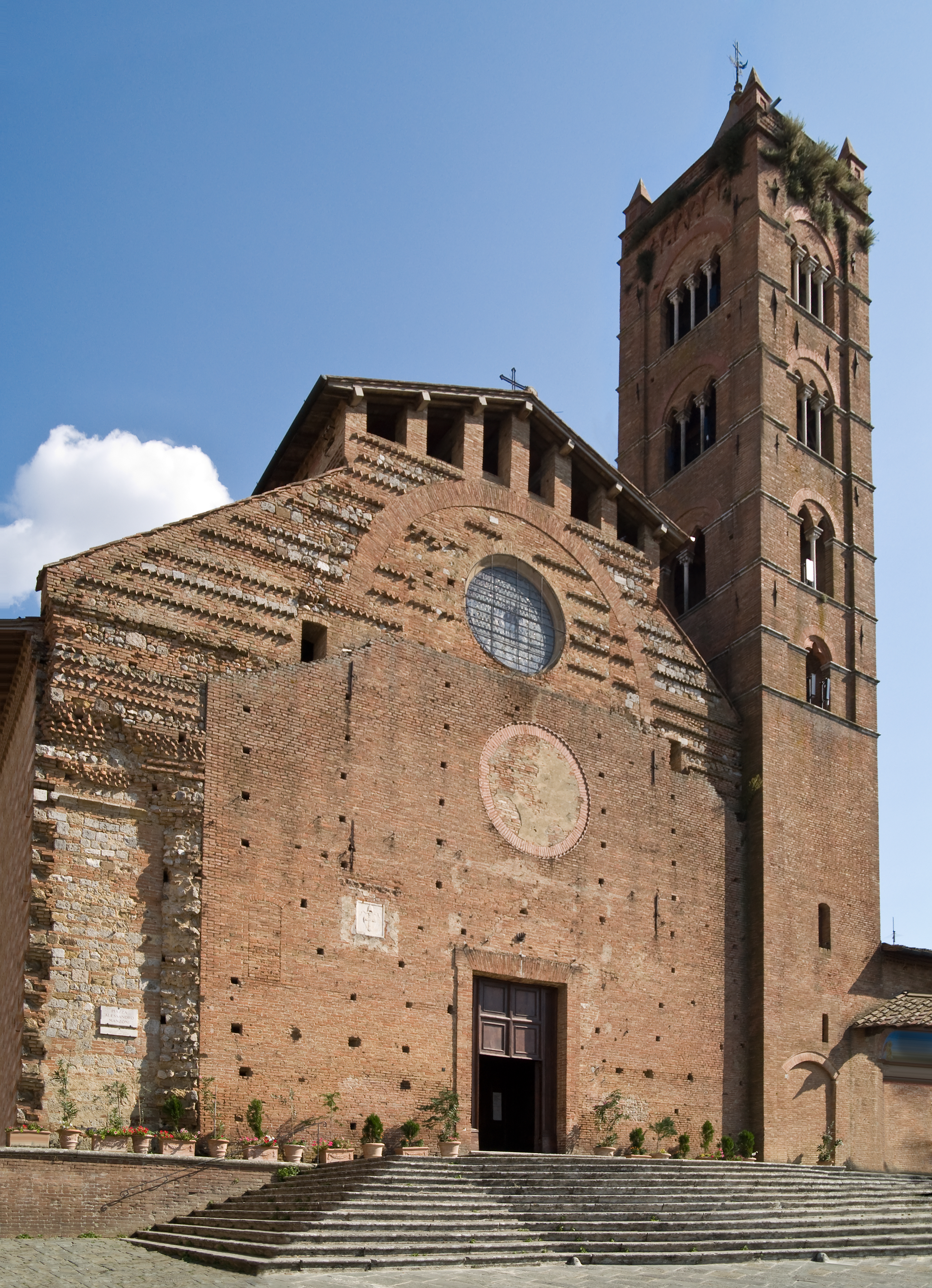 The Romanesque church facade of the Basilica of Santa Maria dei Servi. Located in Siena, Tuscany, Italy.